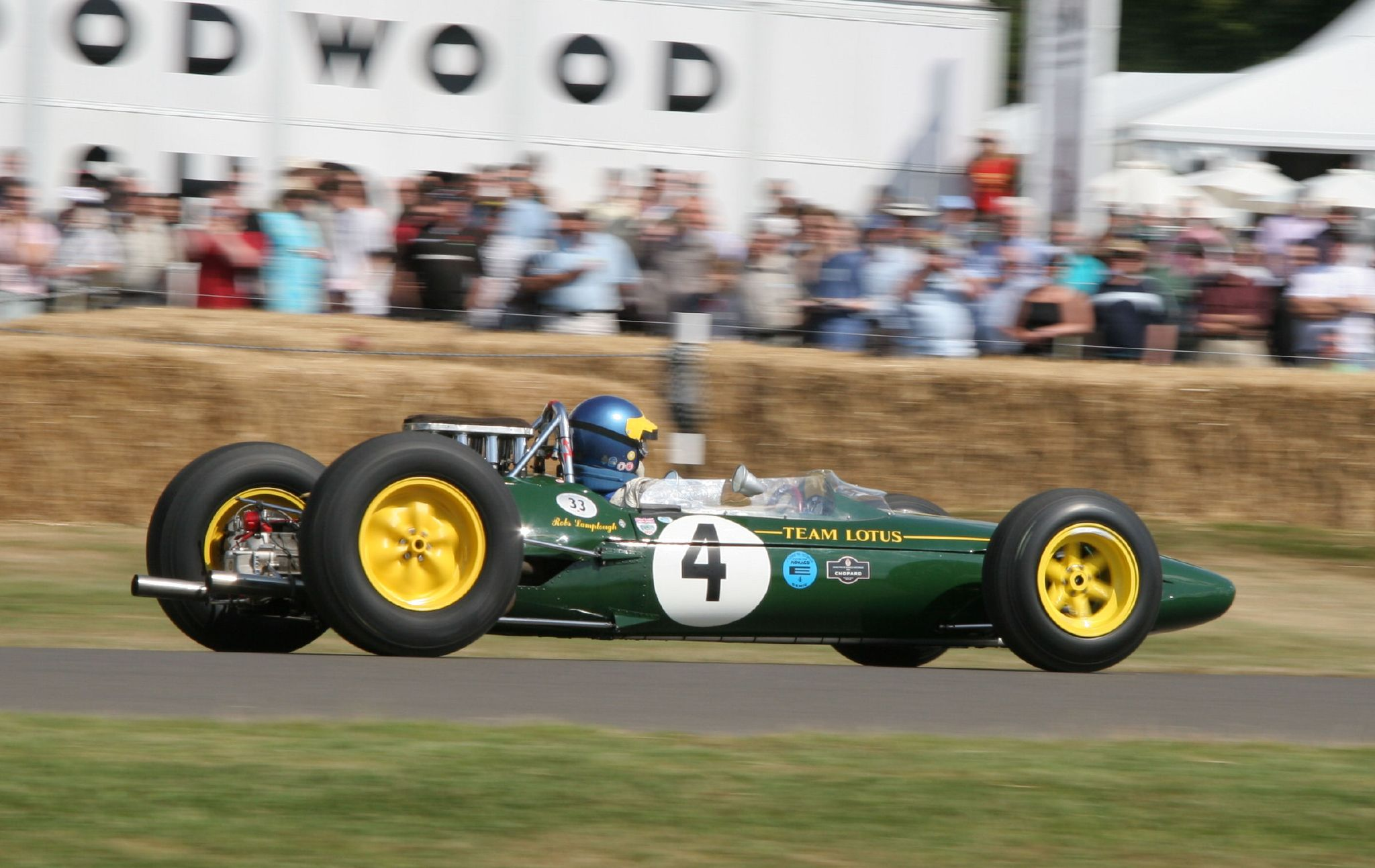 1964 Lotus Climax 33 at the 2006 Goodwood Festival of Speed.